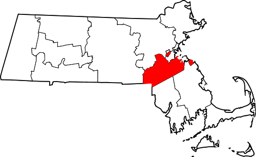 norfolk